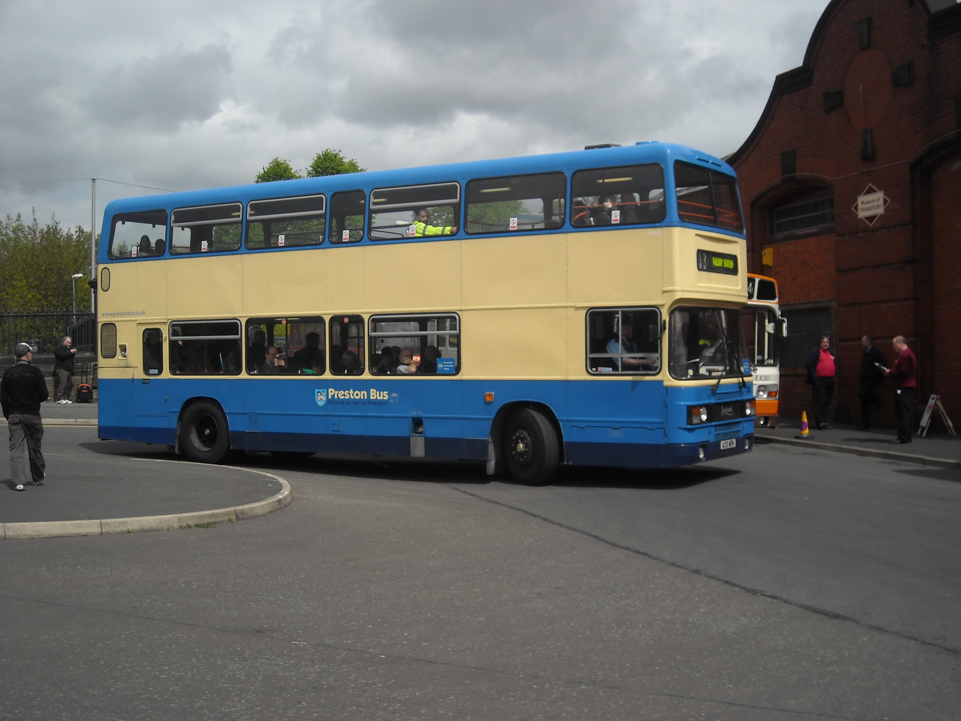 Back to my own photos of the Rear Engined at 50 event now, this was new in February 1984 and is doing the heritage route towards Manchester Victoria